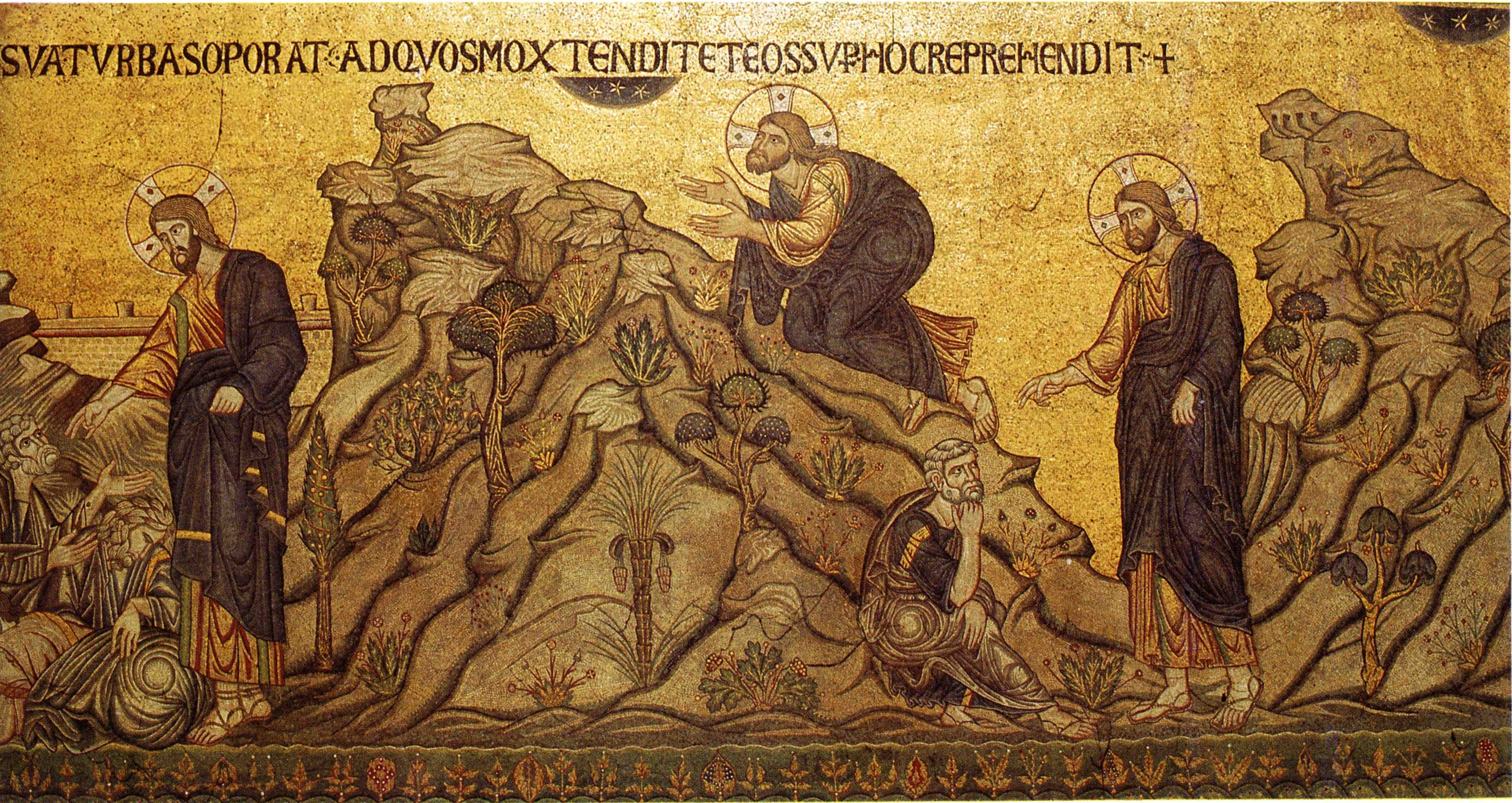 The Prayer in the Garden of Olives